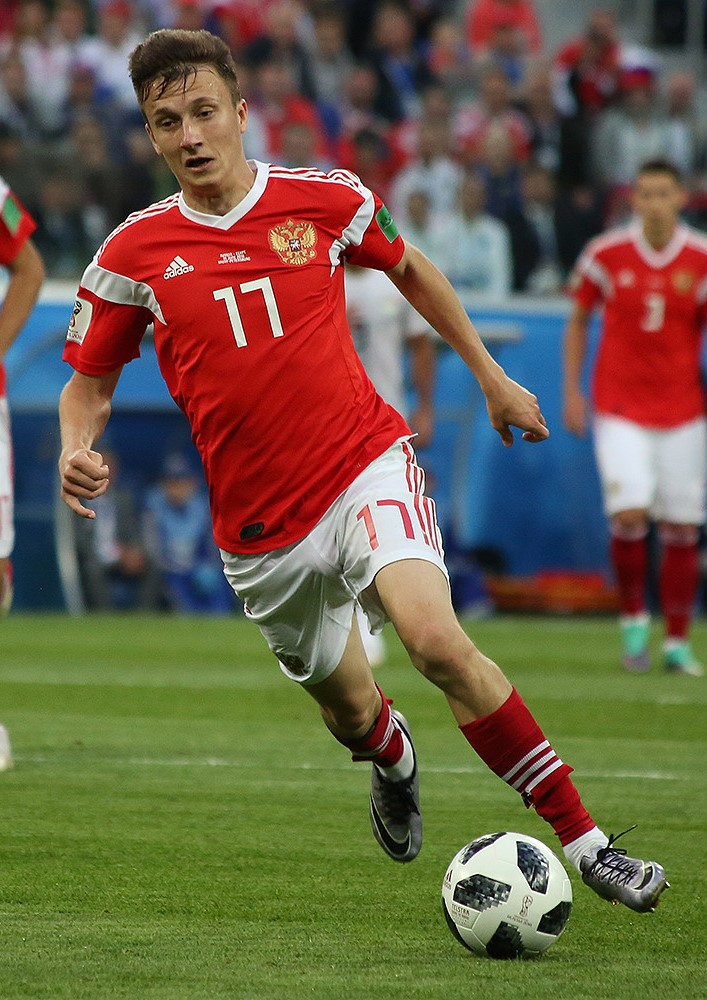 Aleksandr Golovin